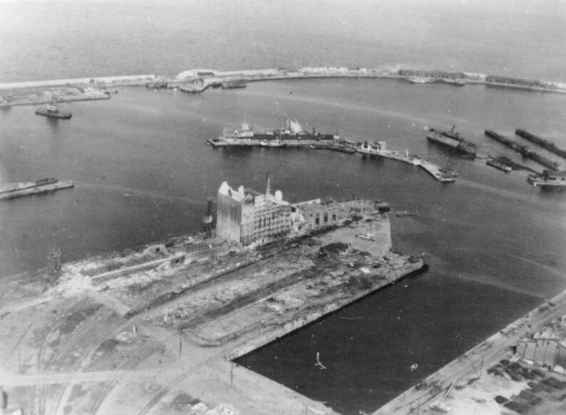 Reval (Talinn), 1 Sept 1941, day of the takeover